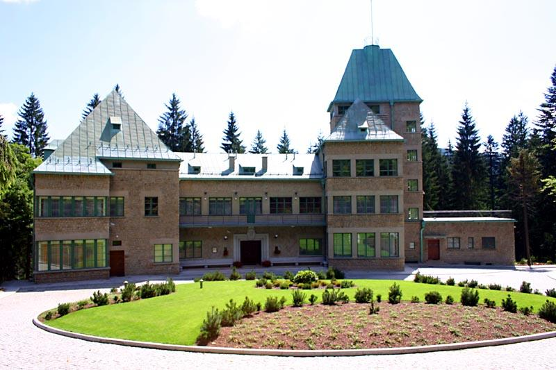 Wisla (Poland)